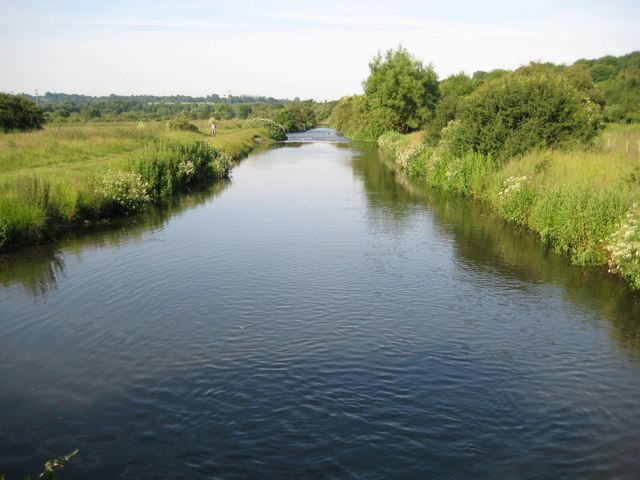 River Gade through Croxley Common Moor Viewed looking downstream with Croxley Common Moor to the left, the Grand Union Canal and the river run parallel to one another here and the canal is just beyond the hedge to the right.